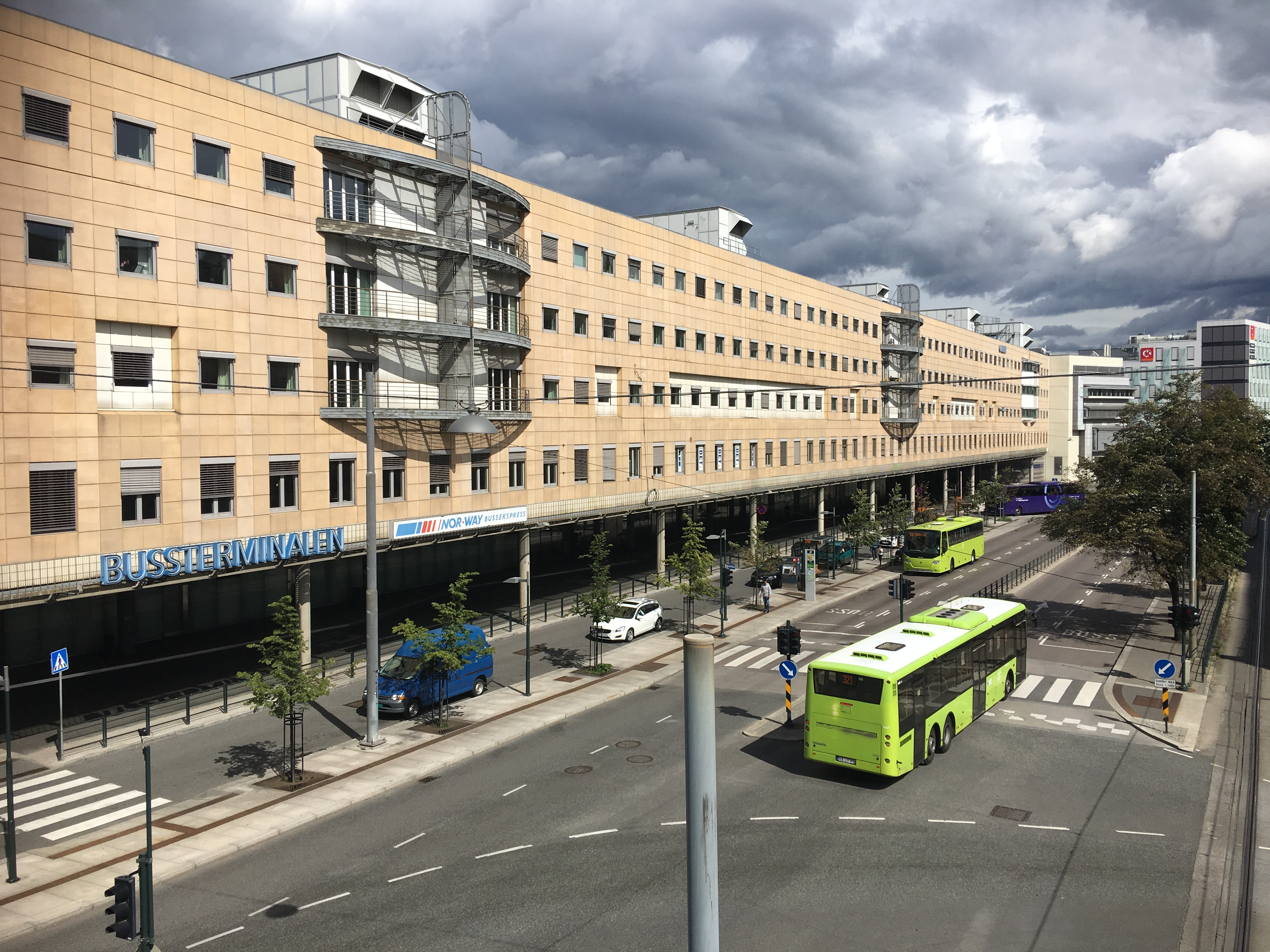 Shopping and office building in east-central Oslo, Norway